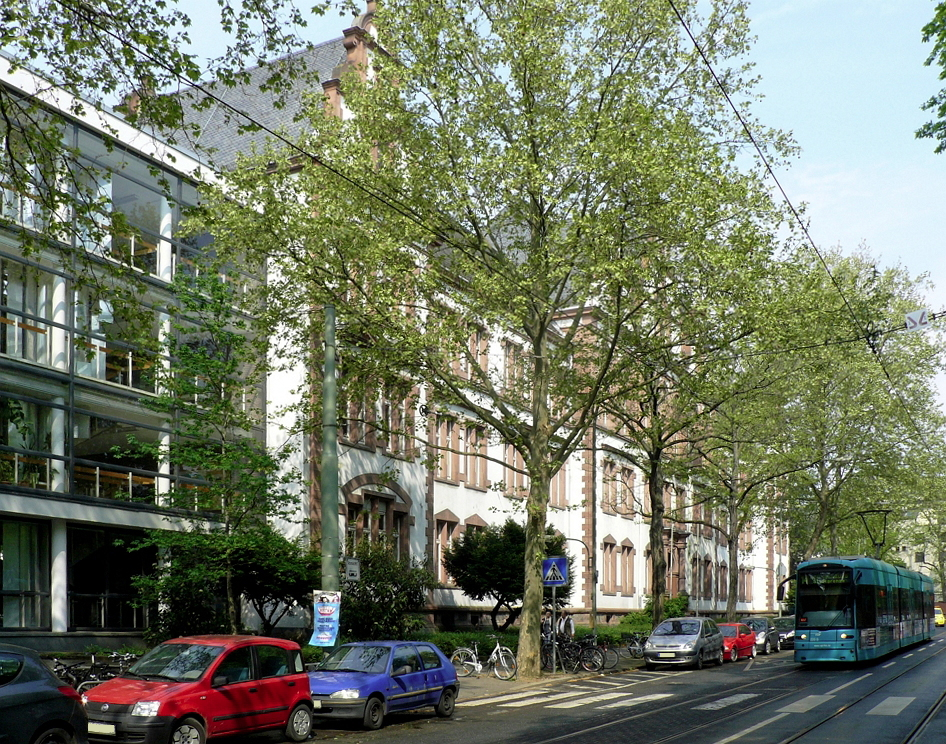 Bernhard Grzimek Allee in the borough Ostend of Frankfurt am Main, Hesse, Germany. The picture shows a partial front view of the Heinrich von Gagern-Gymnasium and a street-car.